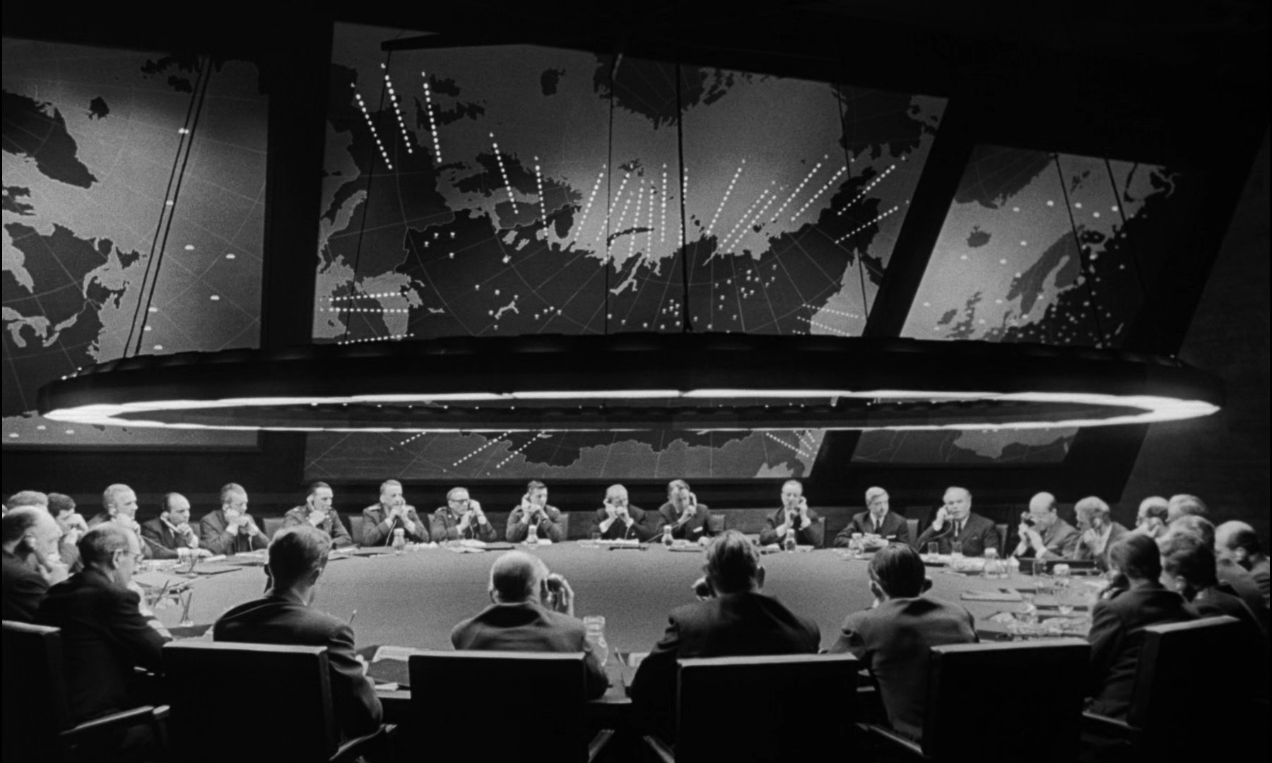 The War Room with the Big Board from Stanley Kubrick's 1964 film, Dr. Strangelove.